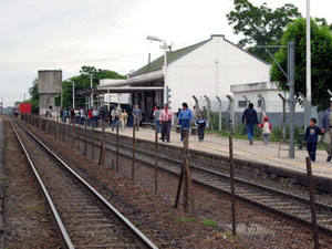 Villa Rosa Train Station